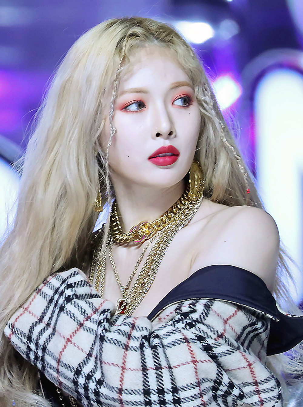 HyunA at Melon Music Awards on December 2, 2017.